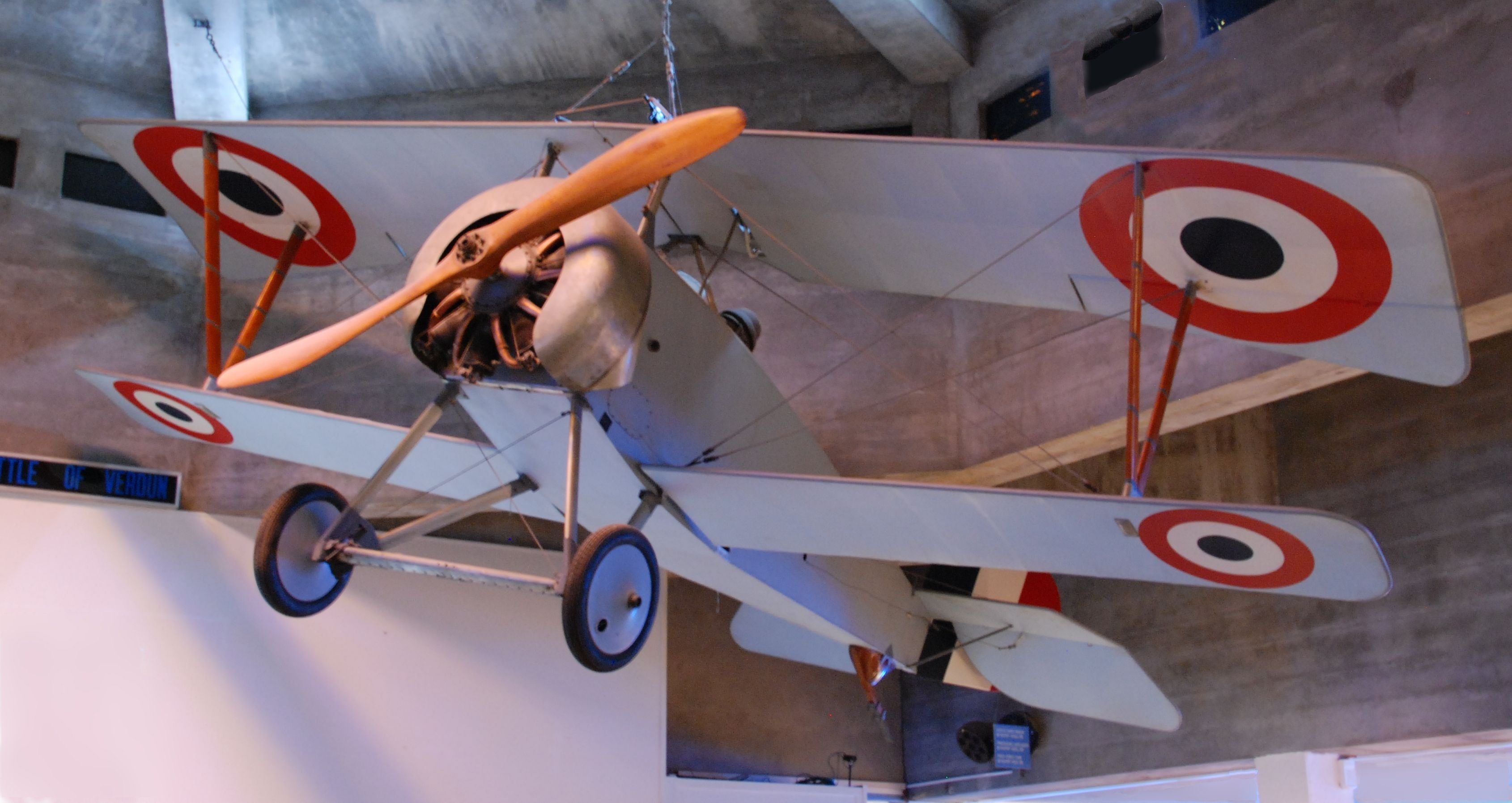 French fighter aircraft Nieuport 11; the Verdun Memorial, Fleury-devant-Douaumont, France